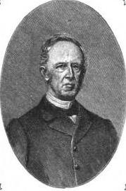 Portrait photograph of Louis von Moltke